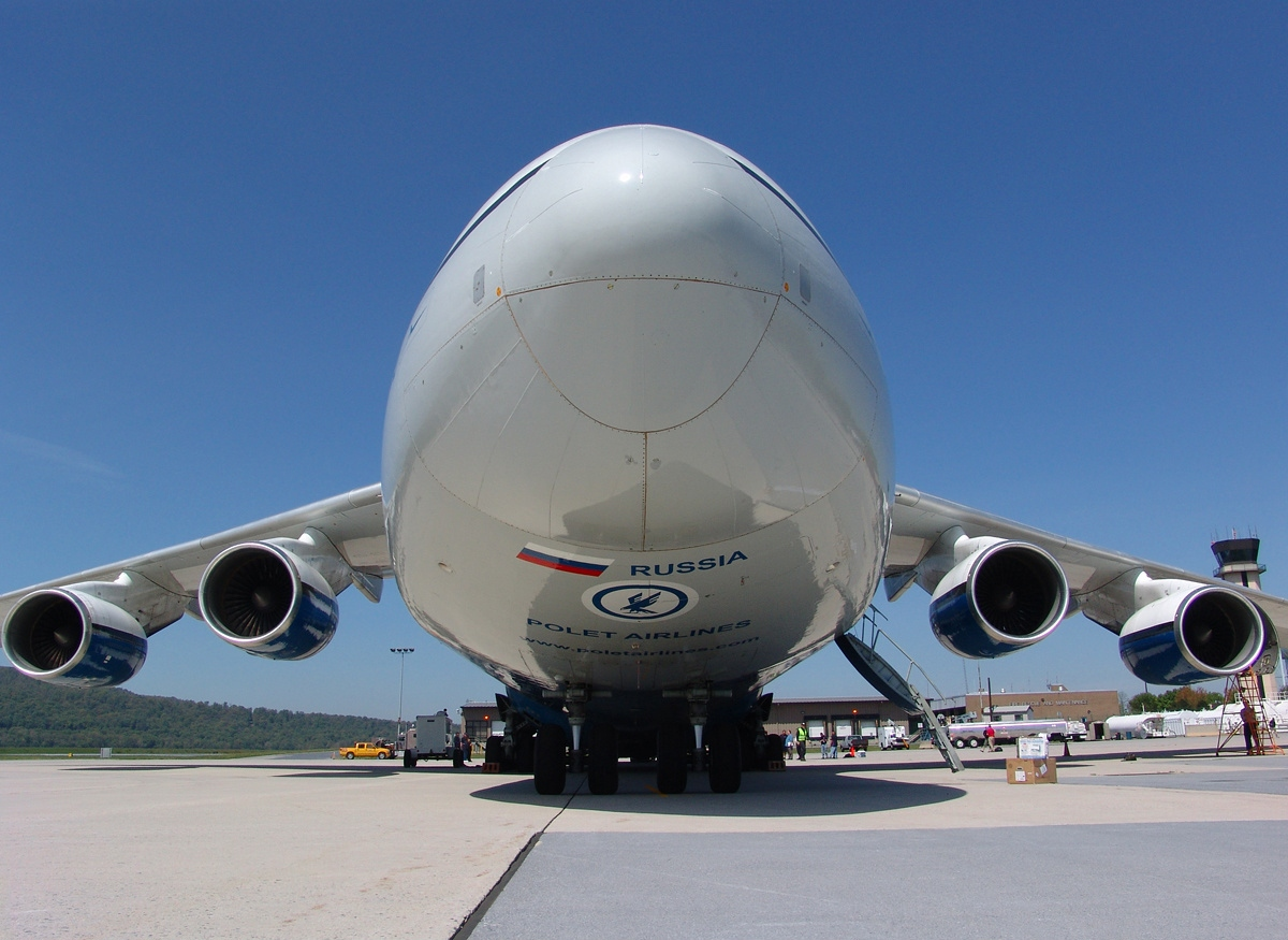 Head on with the whale of the skies!